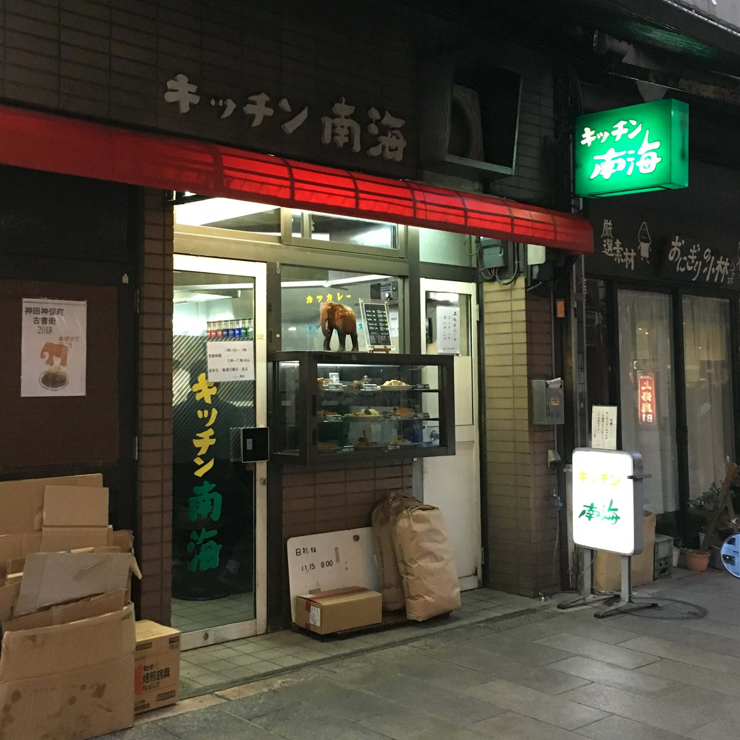 Kitchen Nankai Jimbocho main branch (Tokyo, Japan)